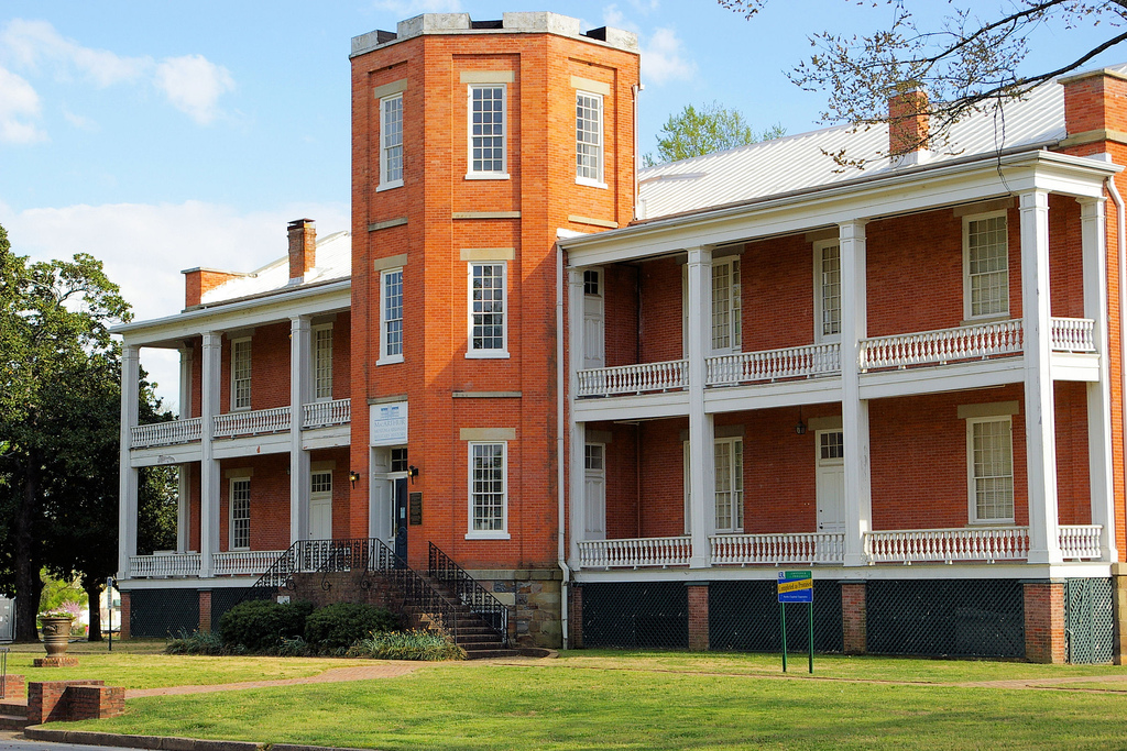 From flickr: Birthplace of the American Ceaser, Birthplace of Gen. MacArthur, Little Rock, Arkansas